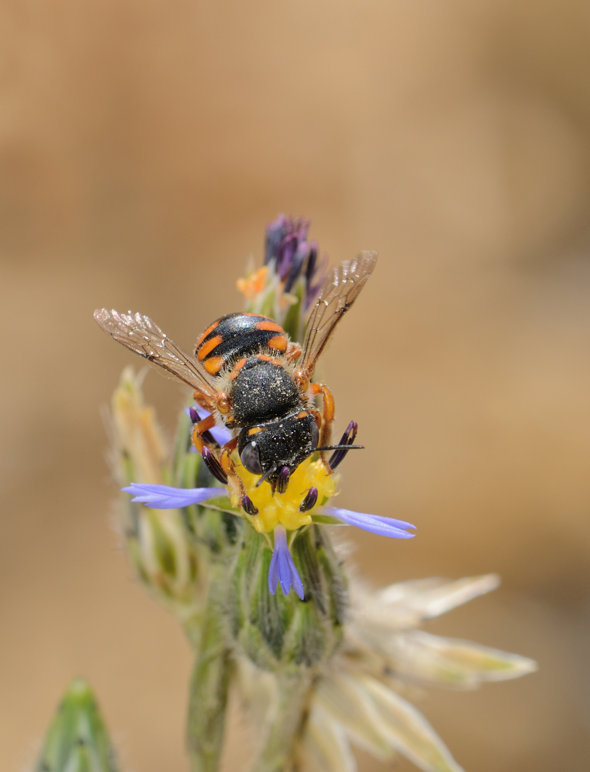 Anthidium auritum Klug, 1832, female foraging on Volutaria crupinoides, HaMakhtesh HaGadol, Northern Negev, Israel, April 24, 2013.